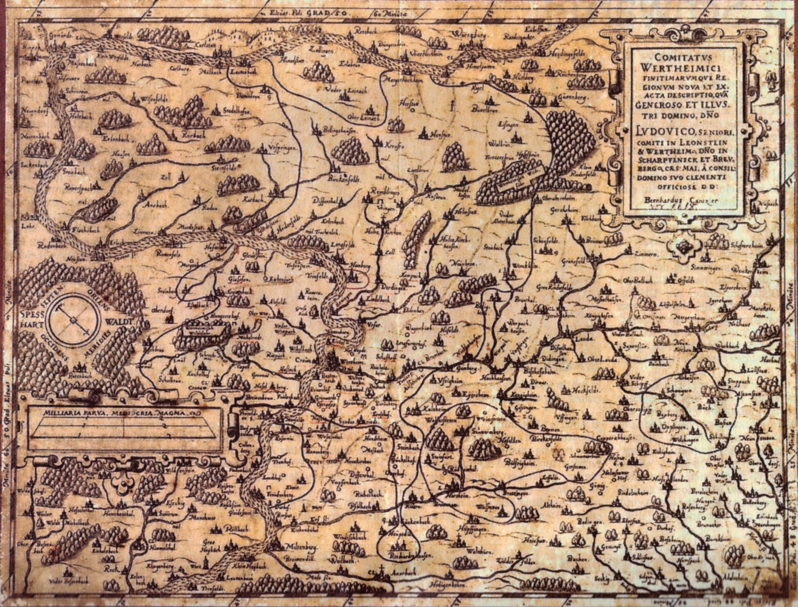 Comitatus Wertheimici (before 1700), north-east at top